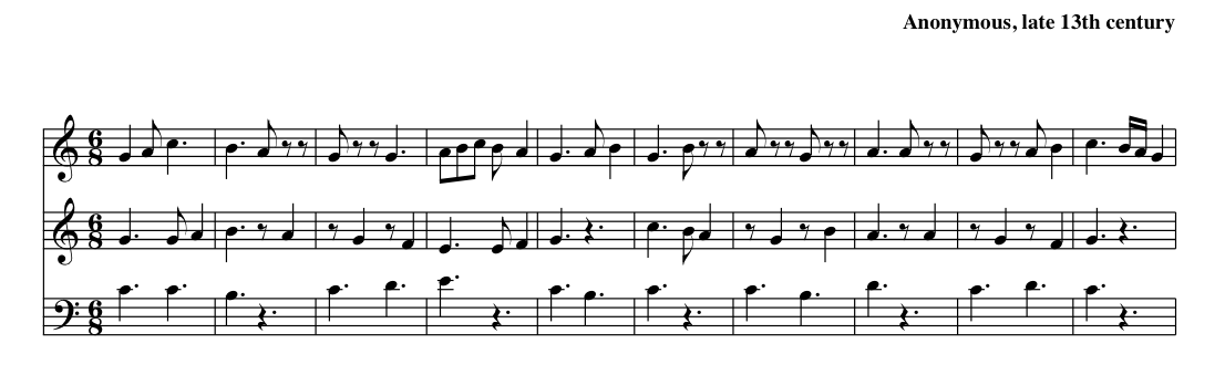 Example of hocket (anonymous, 13th century, probably French)